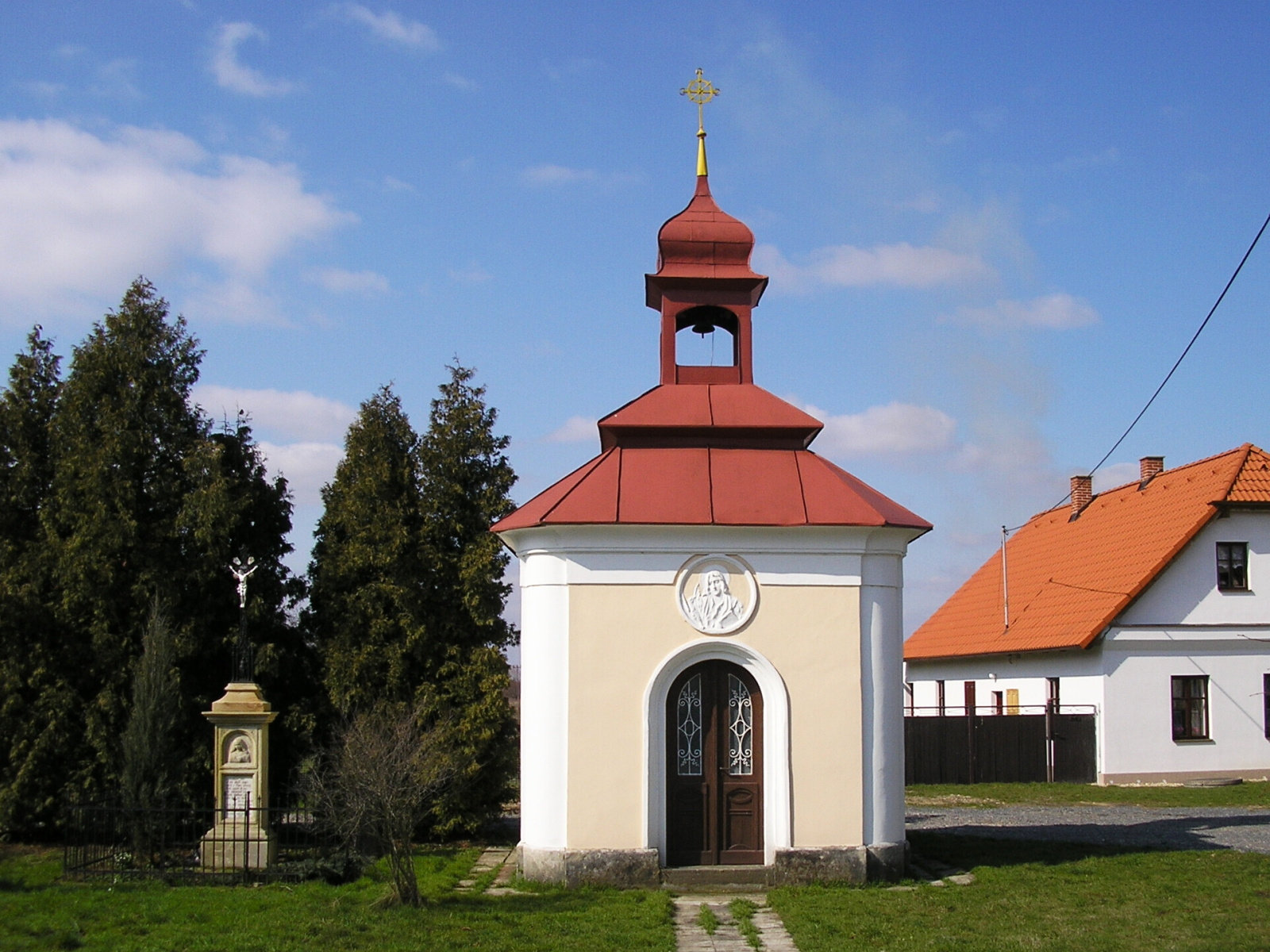 Village chapel in Holešovice, municipality of Chroustovice, Chrudim District, Pardubice Region, the Czech Republic.